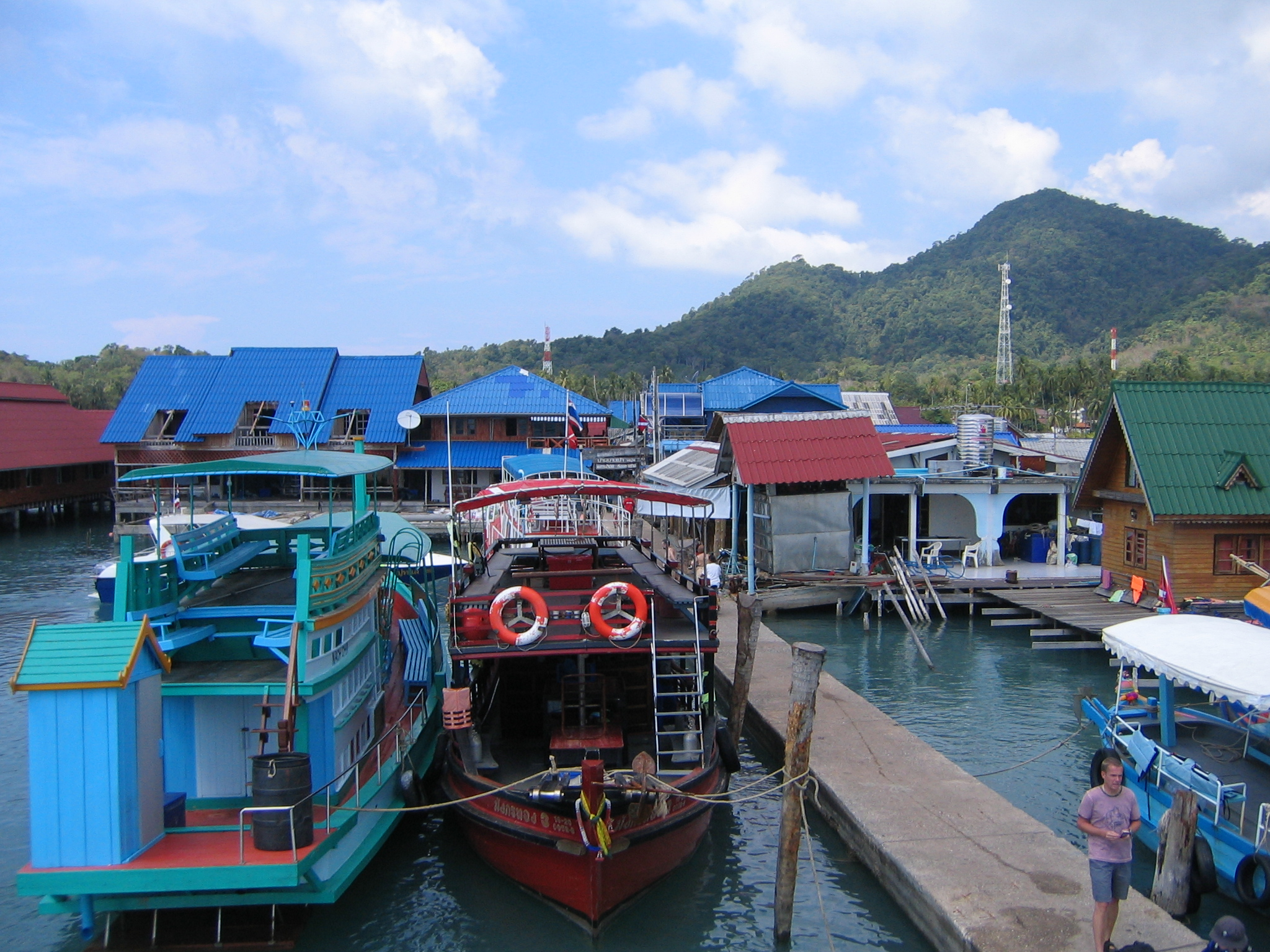 The fishing village turned-tourist-attraction in Ao Ban Bang Bao on Ko Chang Island in Trat Province, Thailand. The boats to nearby islands of Ko Wai, Ko Mak and Ko Kut leave here.